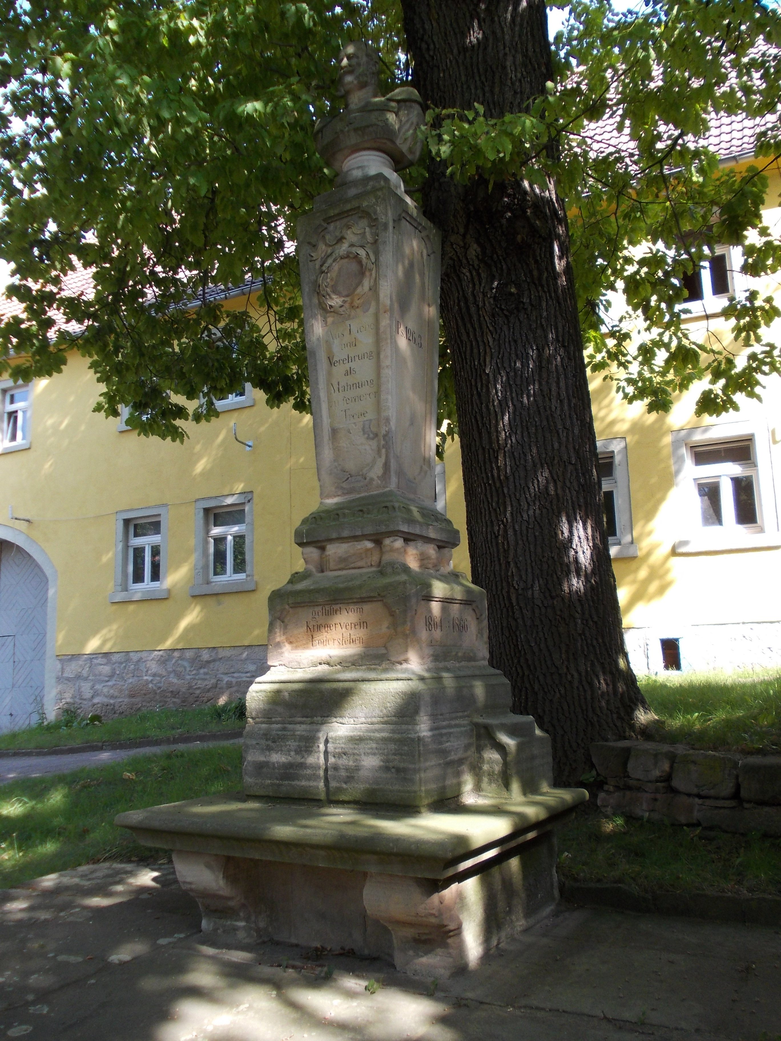 Memorial to the emperor William I and to the wars of 1864/66 and 1870/71 in Lodersleben (Querfurt, district of Saalekreis, Saxony-Anhalt)